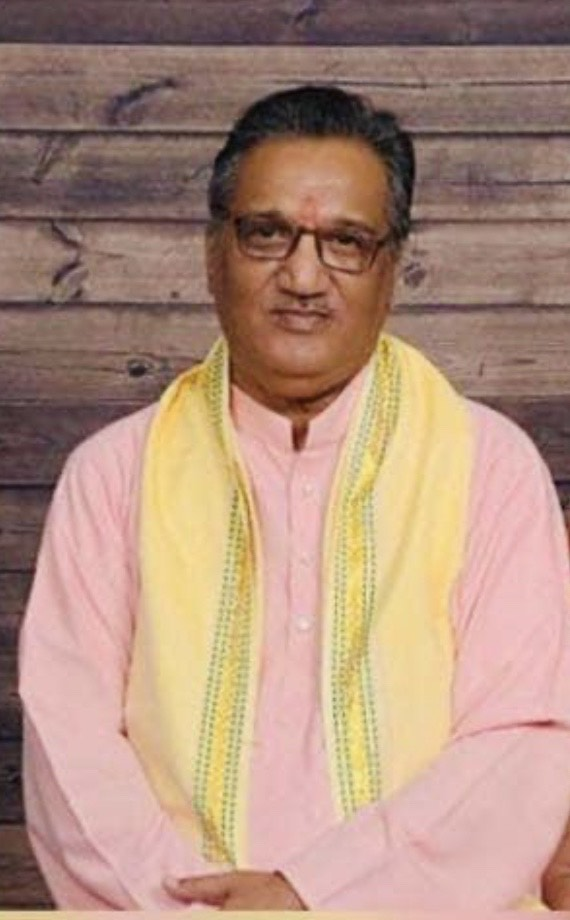 Mithila Prasad Tripathi Photo